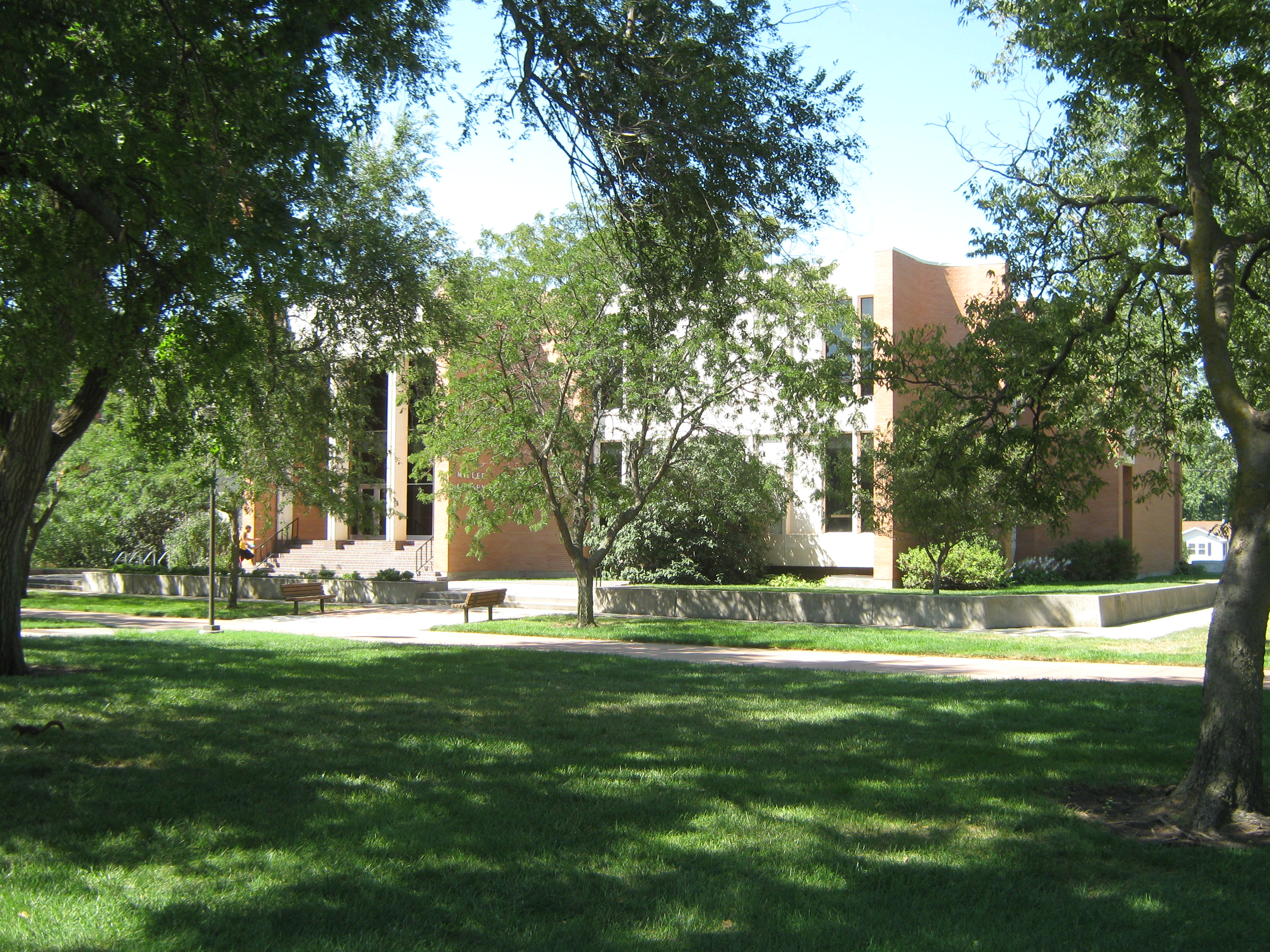 A photo of the school library taken from the northeast